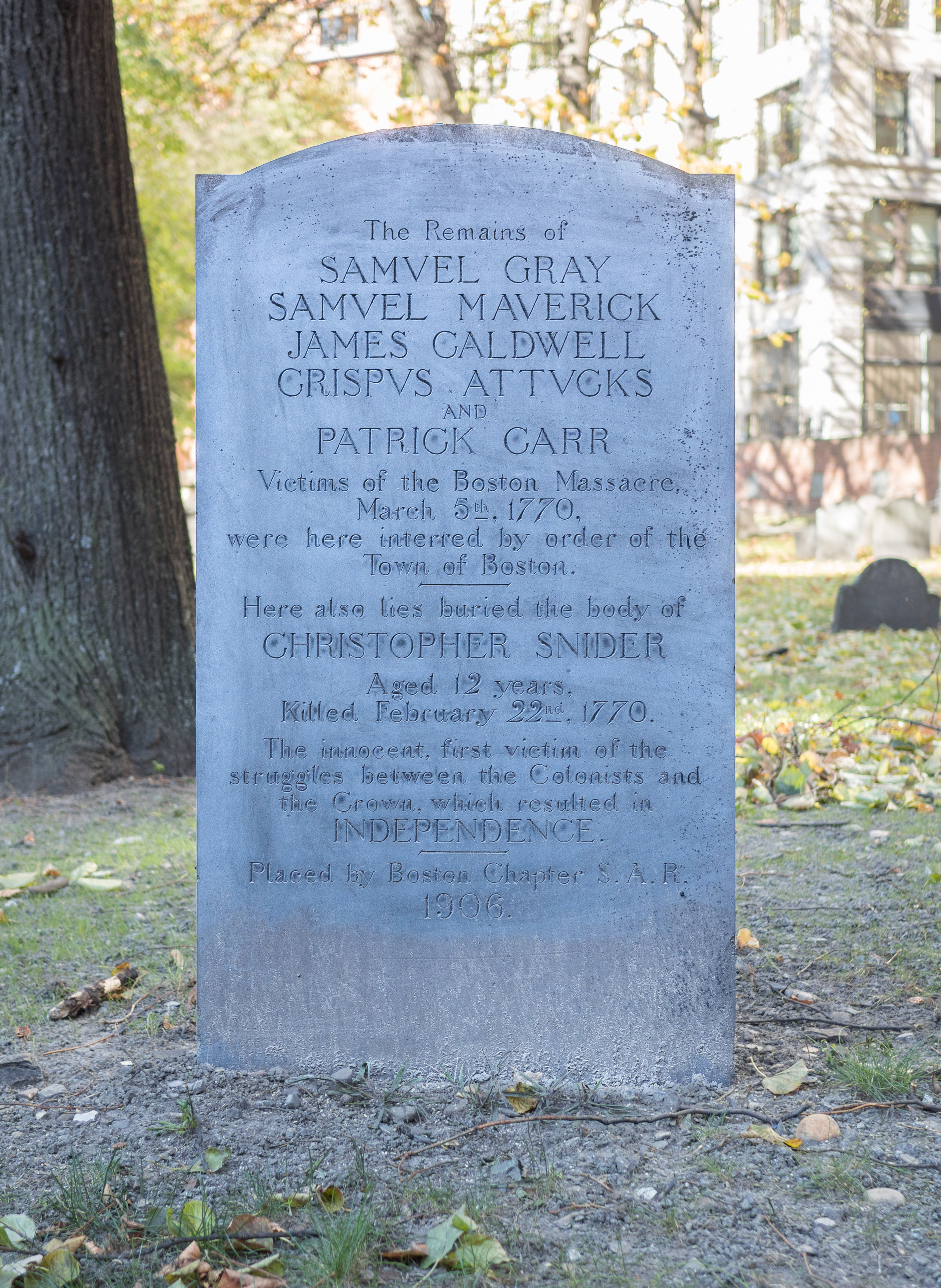 Headstone for the victims of the Boston Massacre in the Granary Burying Ground